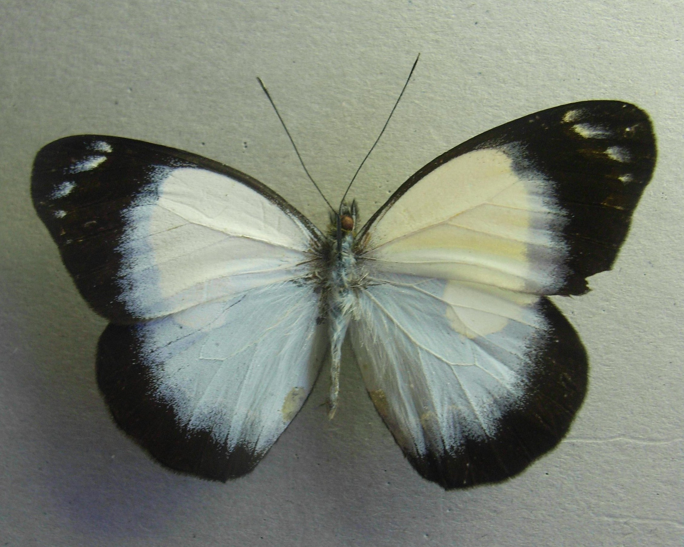 Delias meeki:Pierinae:Pieridae